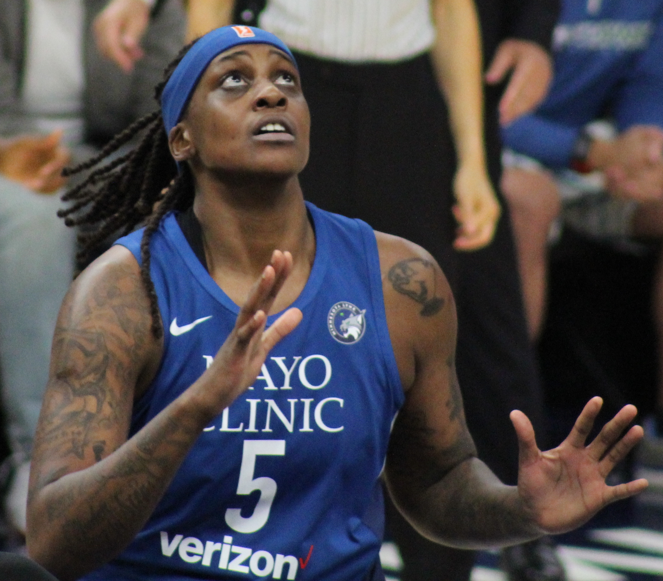 Lynetta Kizer of the Minnesota Lynx in 2018